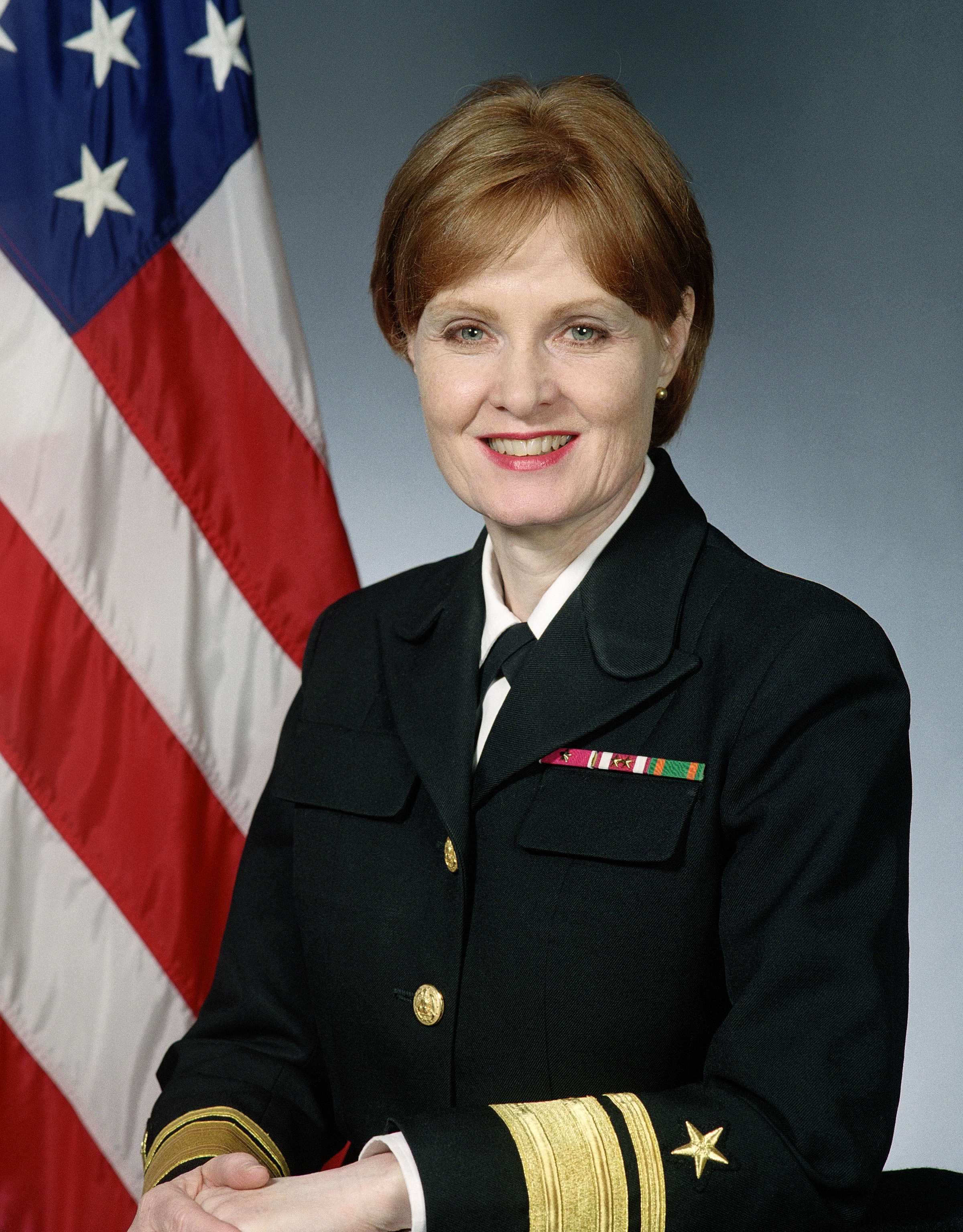 United States Navy Official photo of RADM (Upper Half, Engineering) Kathleen K. Paige, Director, Theater Air and Missile Defense and Systems Engineering/Chief Engineer, Assistant Secretary of the Navy for research, Development and Acquisition. As of May 1998.